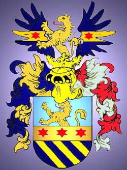 Coat of arms of the hungarian family Jakabffy (élesdi és telegdi Jakabffy).